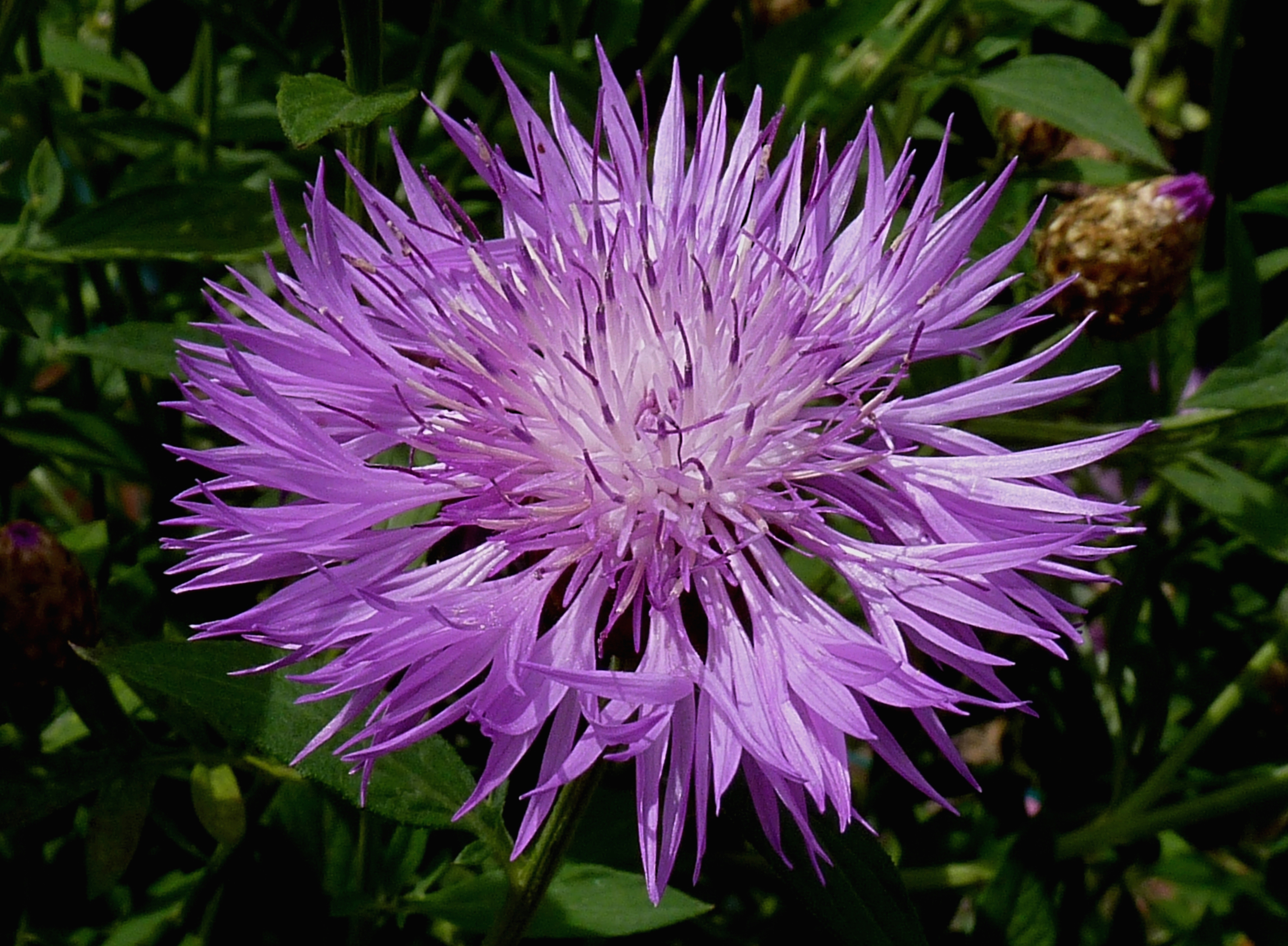 Centaurea dealbata 'Steenbergii', in a garden in Belgium.